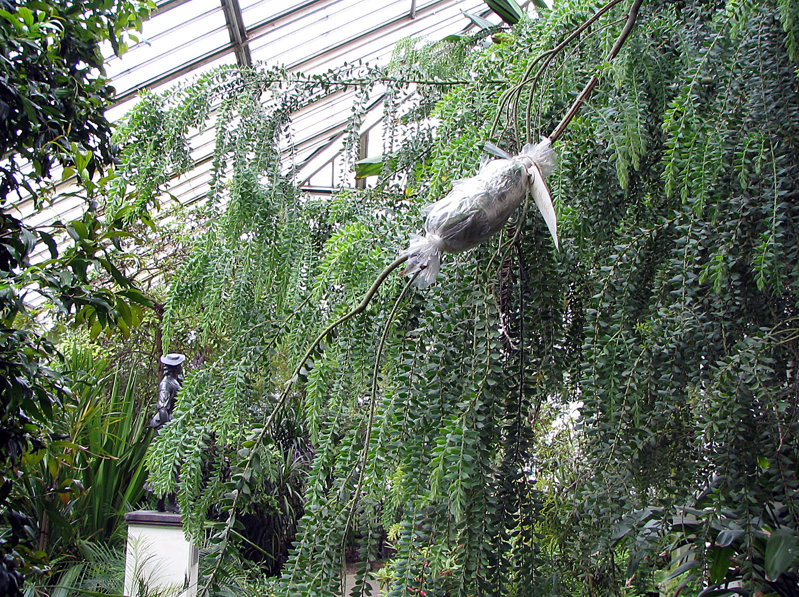 Air layering of Acacia vestita